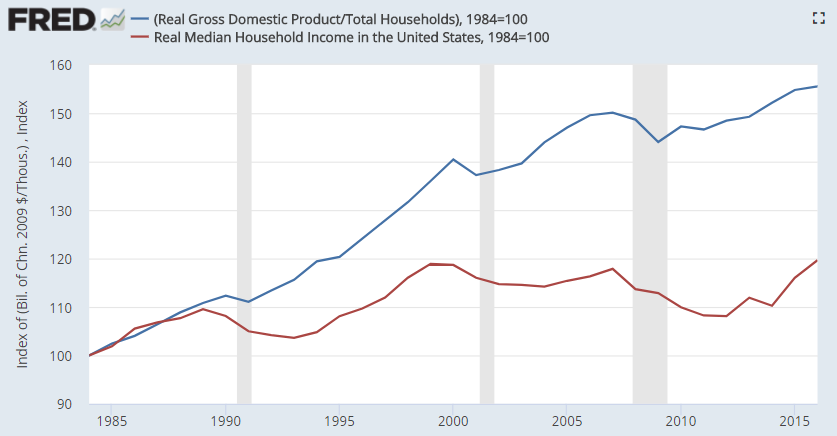 FRED data showing United States real GDP per capita vs. real median household income. This indicates a trend of increasing income inequality. GDP per capita (a measure of average or mean total income) is not translating to median wage increases, indicating a small fraction of the population is capturing the income increase. Refer to NYT article linked in the file description for similar graph and narrative.